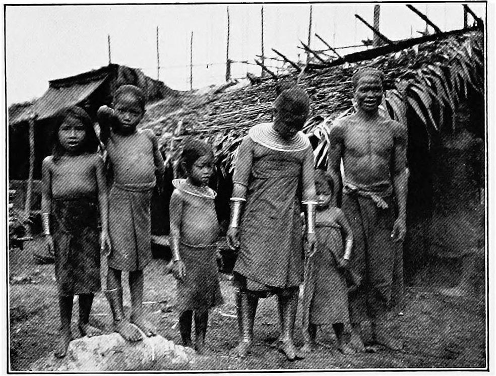 Marudu Dusun (1920)